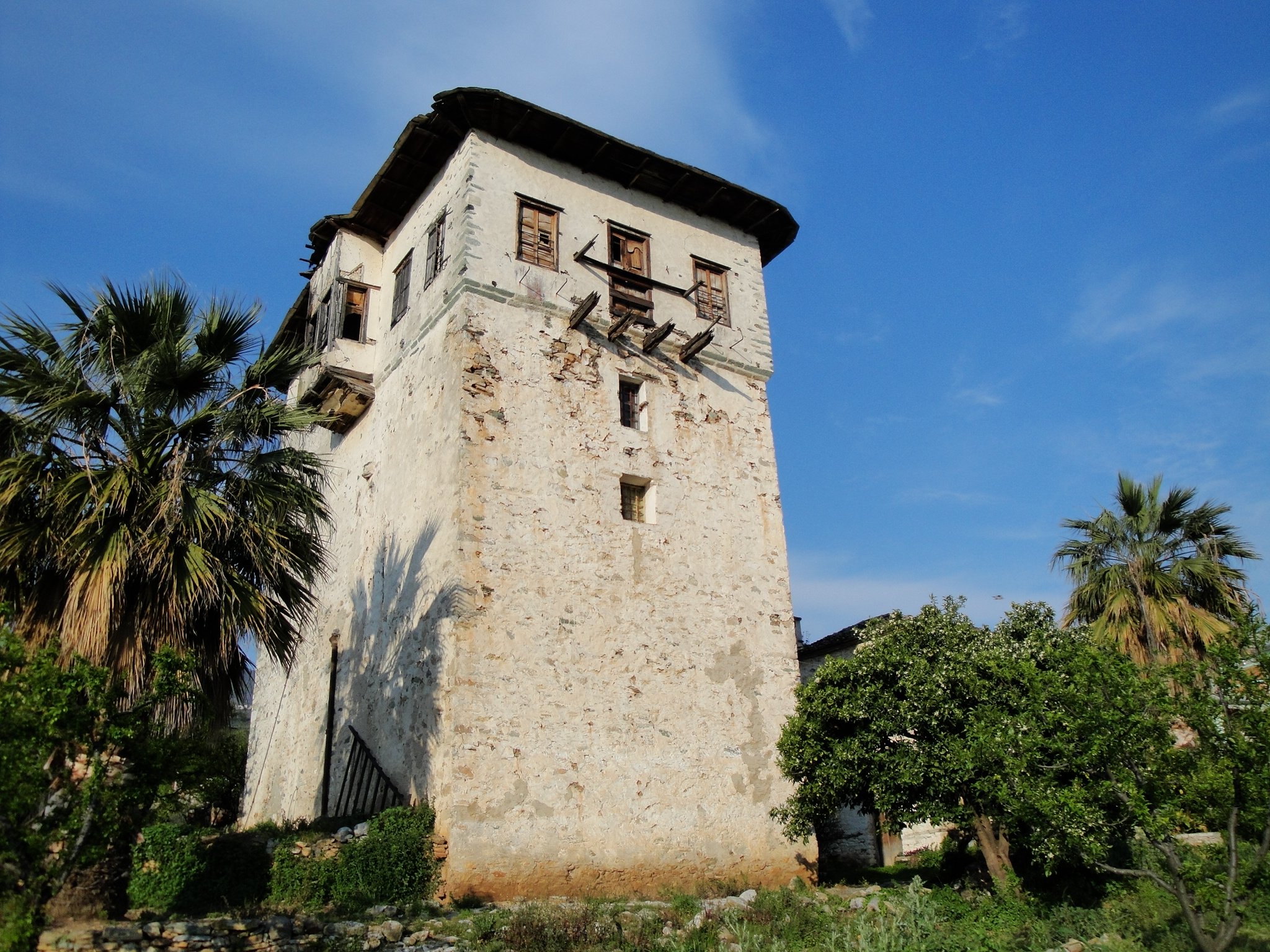 The Unique 17th Century Architecture of the Pelion Tower in Greece